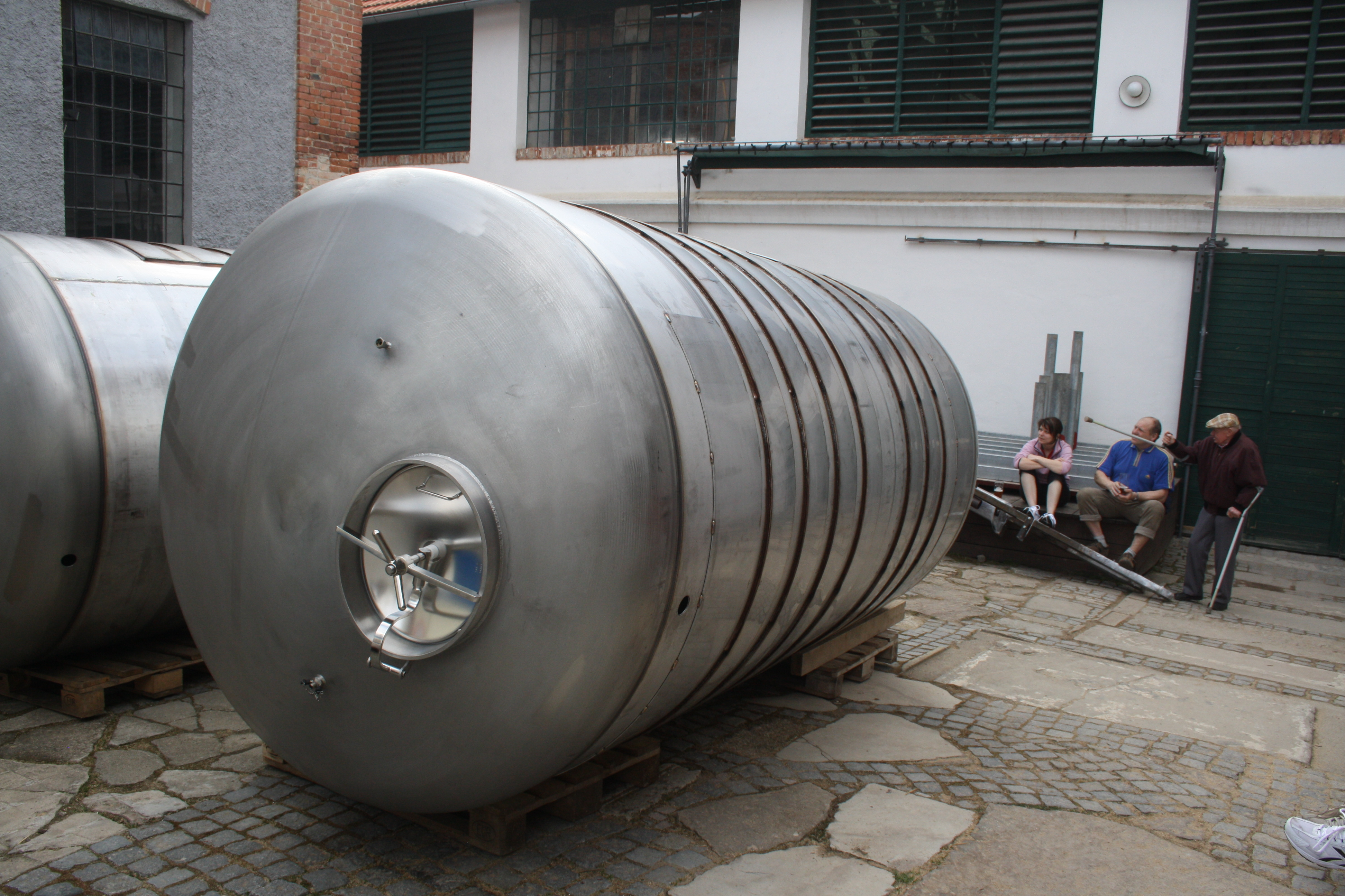 Beer tanks of Dalešice beer, Dalešice Brewery, Třebíč District.